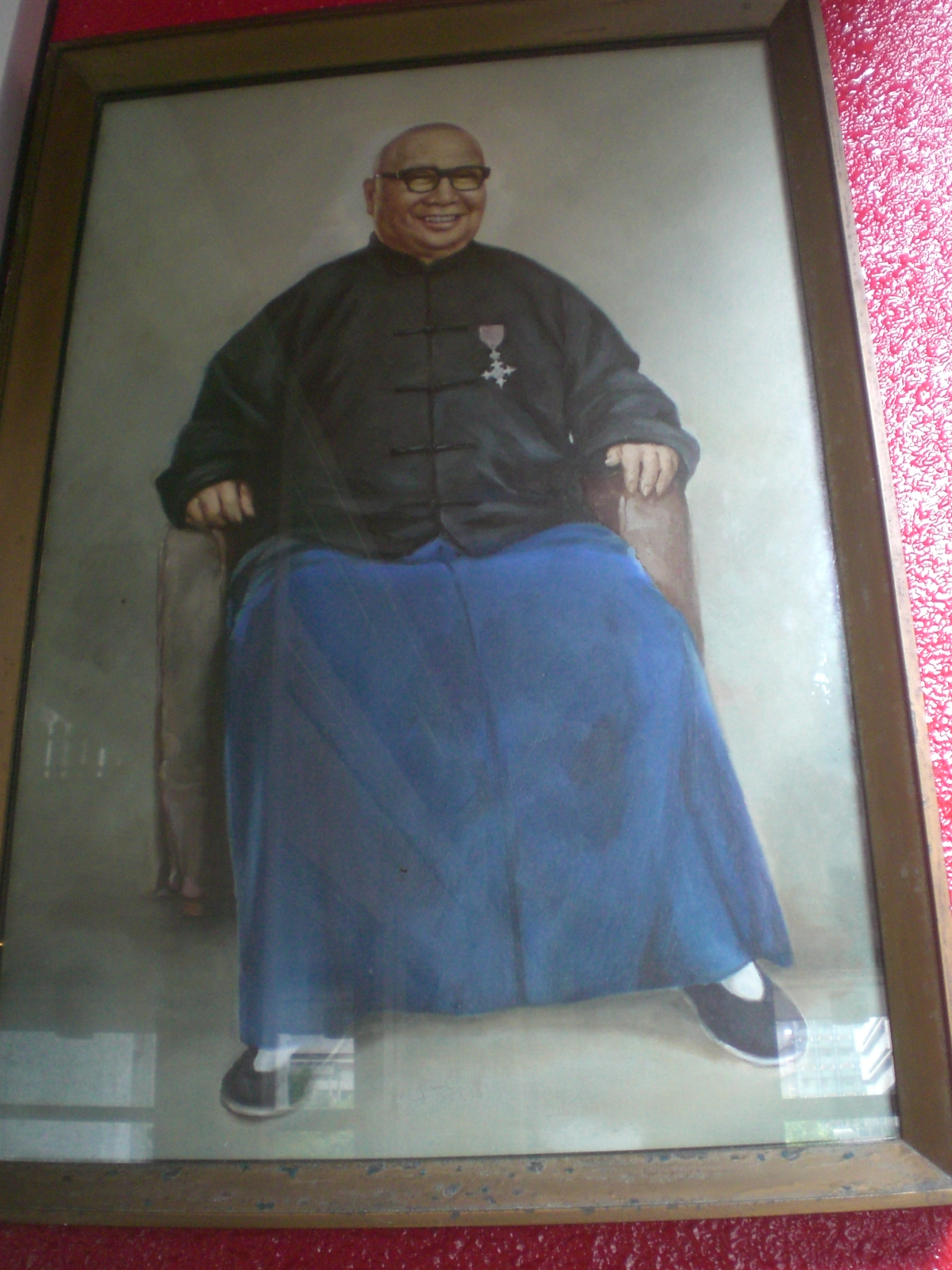 香港大學zh:太古樓zh:方樹泉文娛中心 方樹泉zh:畫像